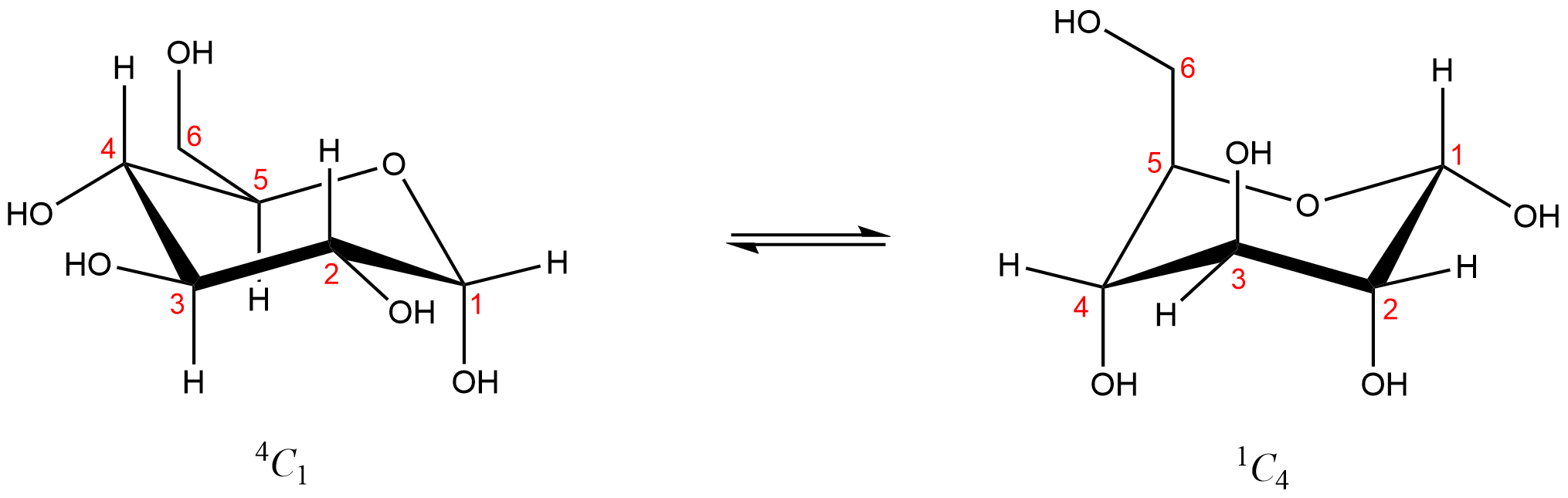 Possible chair conformations for D-glucose.